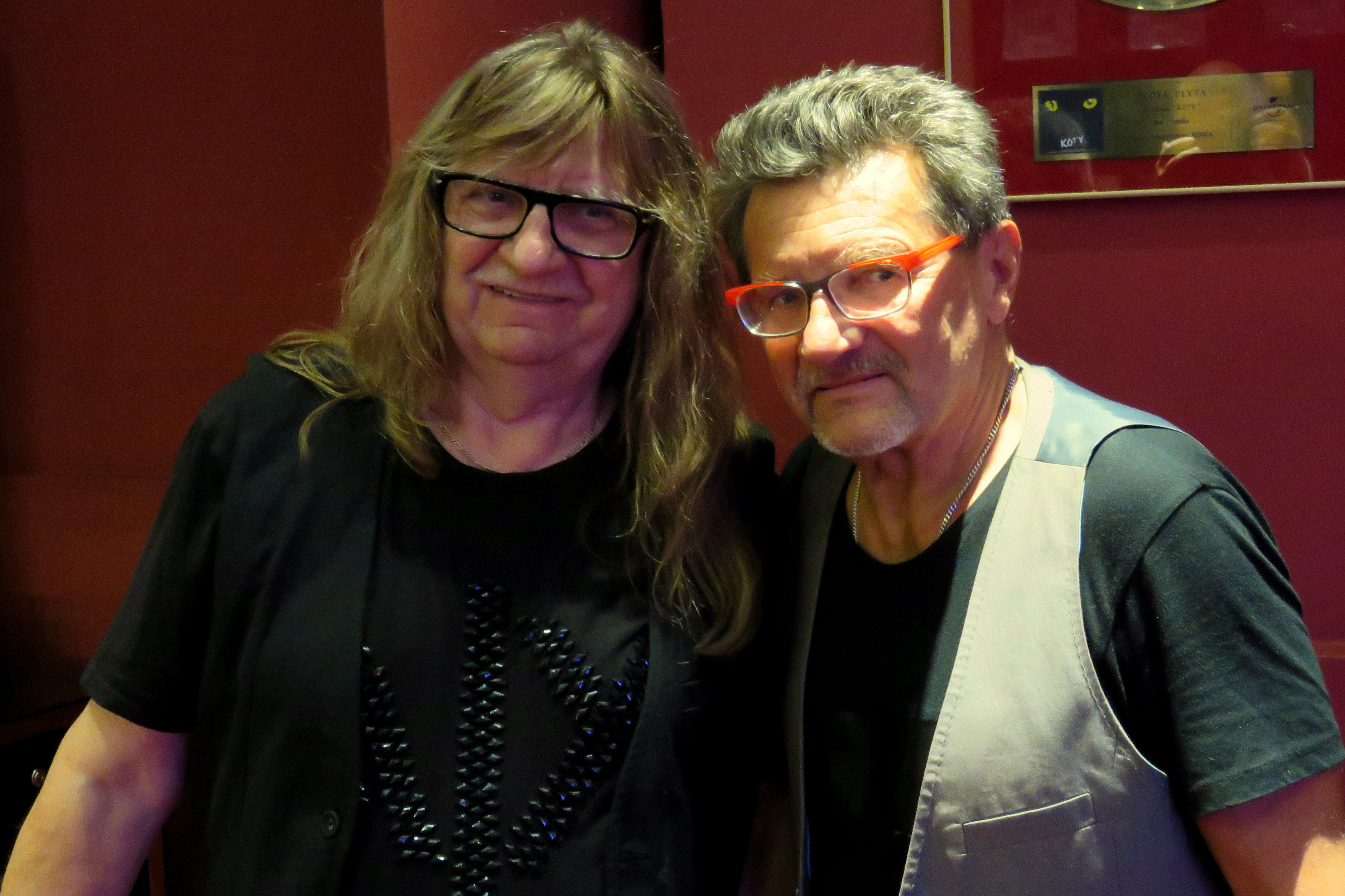 Brothers: Andrzej Zieliński (b. October 5, 1944 in Gdów, Poland) – Polish singer, pianist, composer and arranger. Founder of Skaldowie, and Jacek Zieliński (b. September 6, 1946 in Cracow, Poland) – Polish vocalist, trumpeter, violinist, arranger and composer (Skaldowie). They live in Cracow, Poland